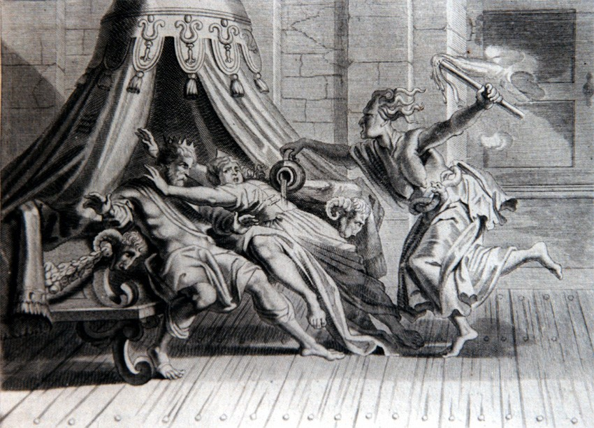 Tisiphone maddens Athamas & Ino (from Greek mythology).